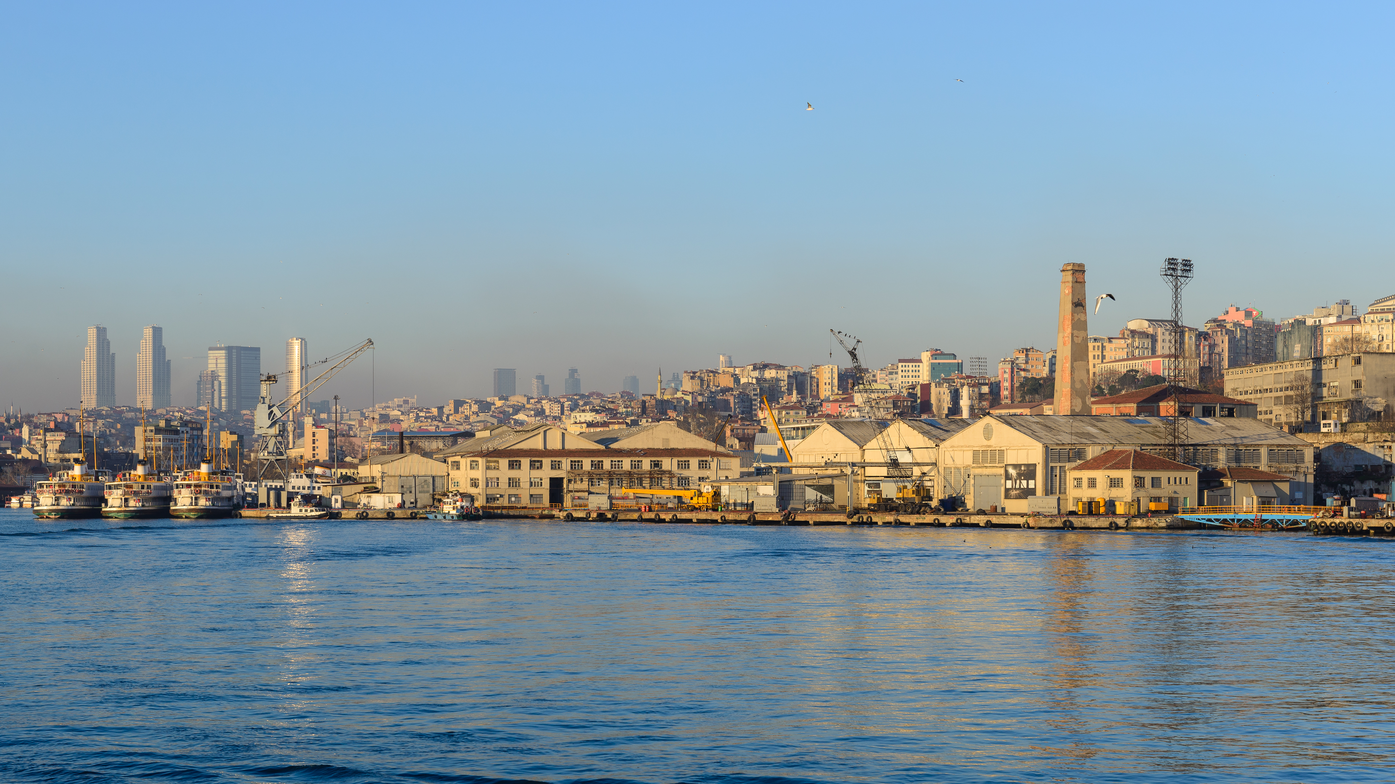 Istanbul and Haliç Tersaneleri (Golden Horn Shipyard), seen rom the Golden horn.